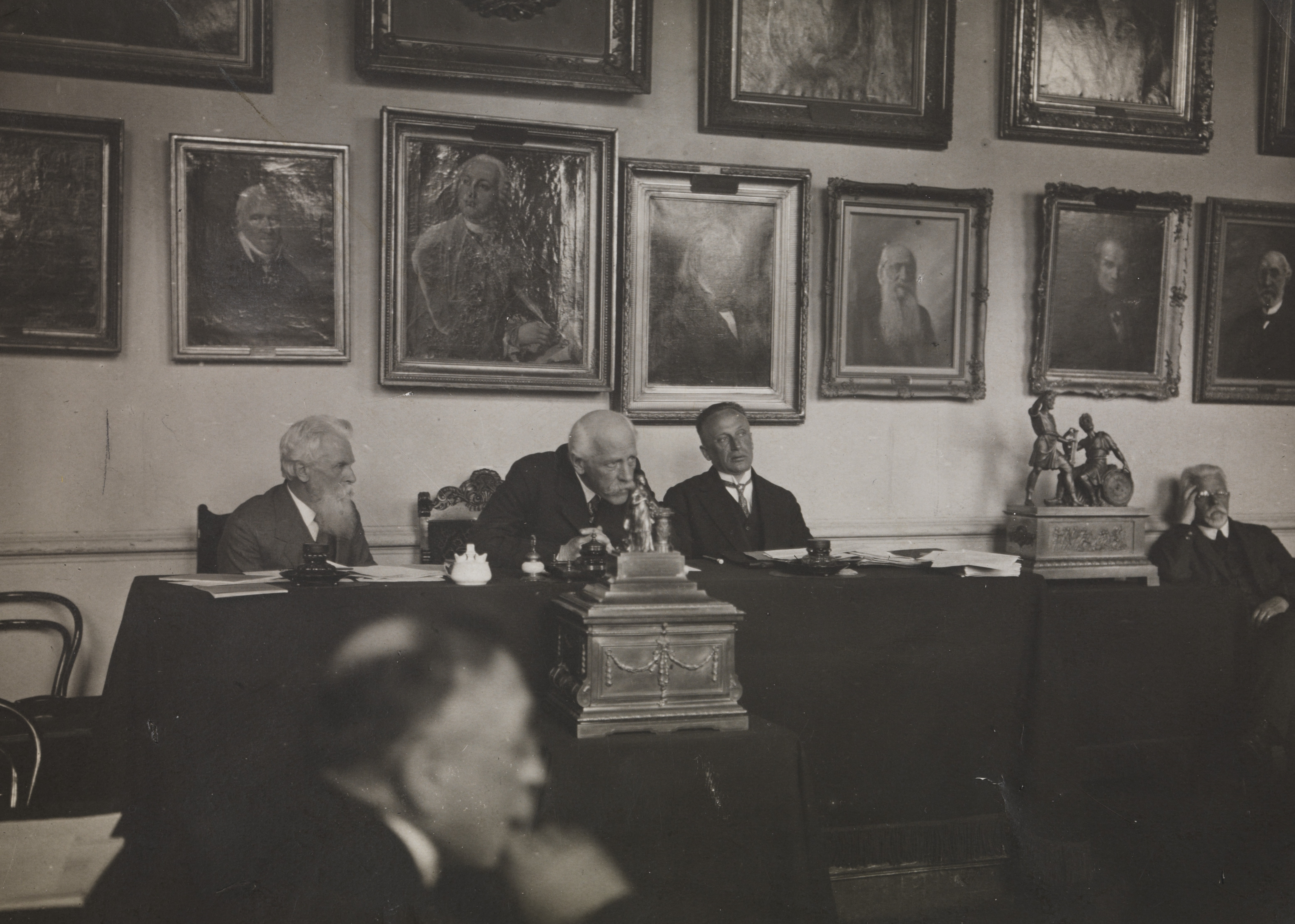 From the annual meeting of the Aeroarctic (The International Study Association for the Exploration of the Arctic Regions by Airship). From the left, seated by the table, first N. M. Knipovich, Soviet oceanographer involved in the cooperation with Norwegian oceanographers on the Barents Sea, second Fridtjof Nansen, and third Walther Bruns. (Leningrad).